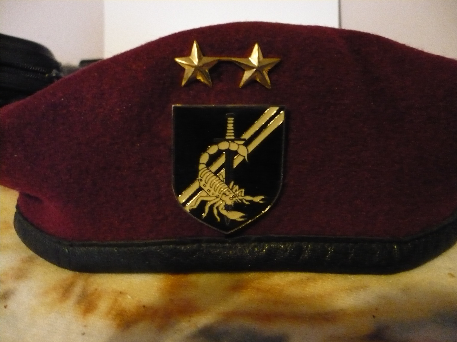 Mercenary Commando Combat Unit 5, Wild Geese, ANGOLA MERCENARY COMMANDO COMMAND OFFICER